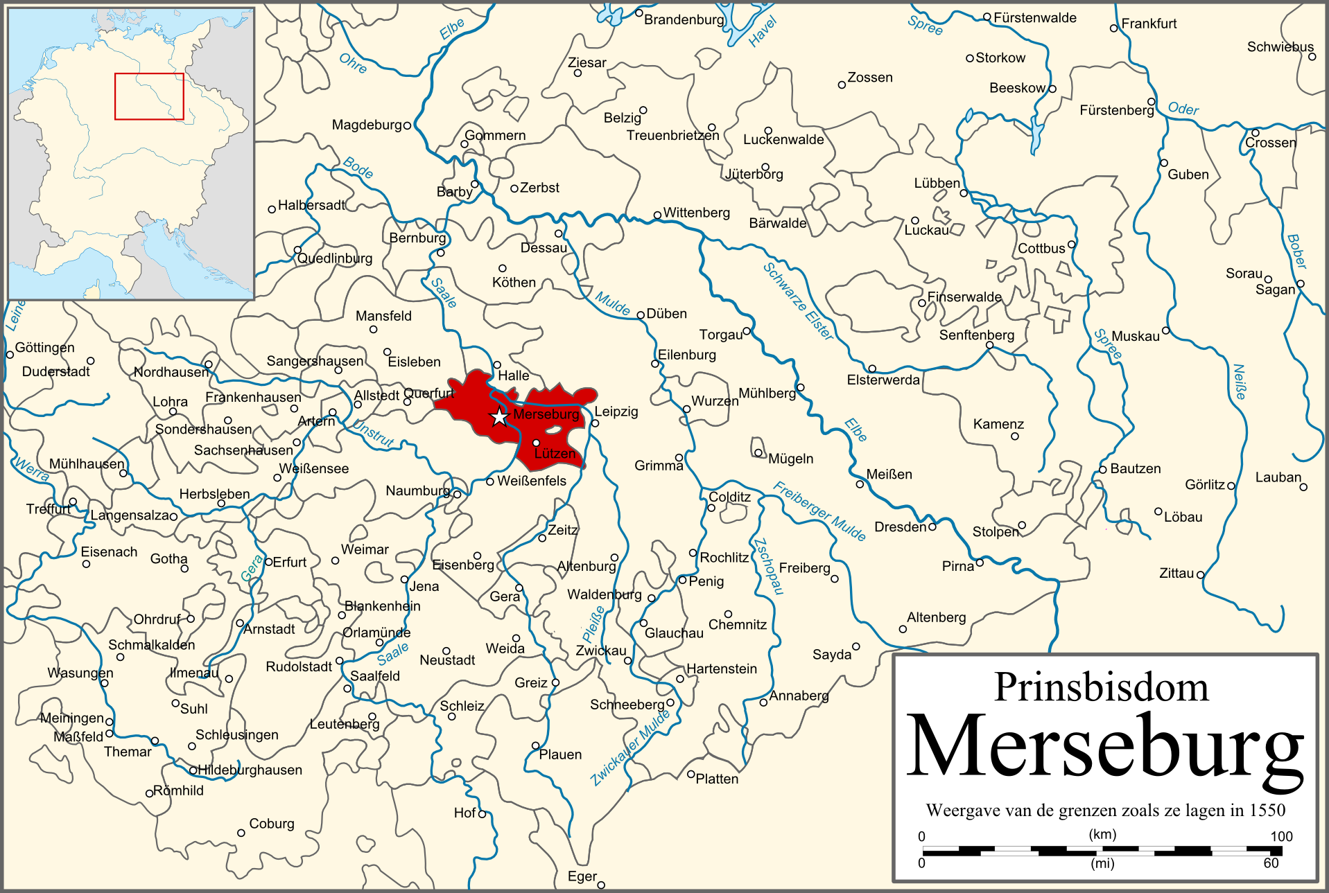 Map of the Prince-bishopric of Merseburg